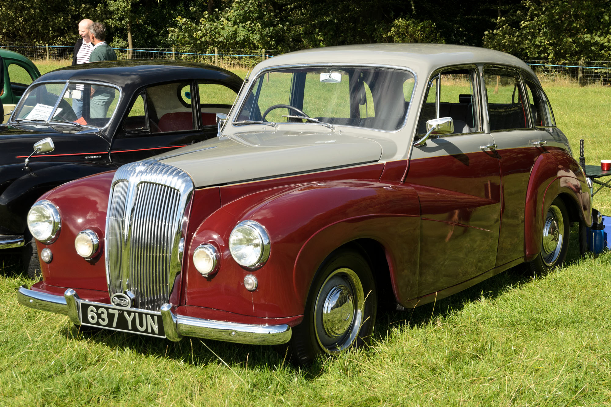 Hoghton Tower Classic Car Show 13/09/2015